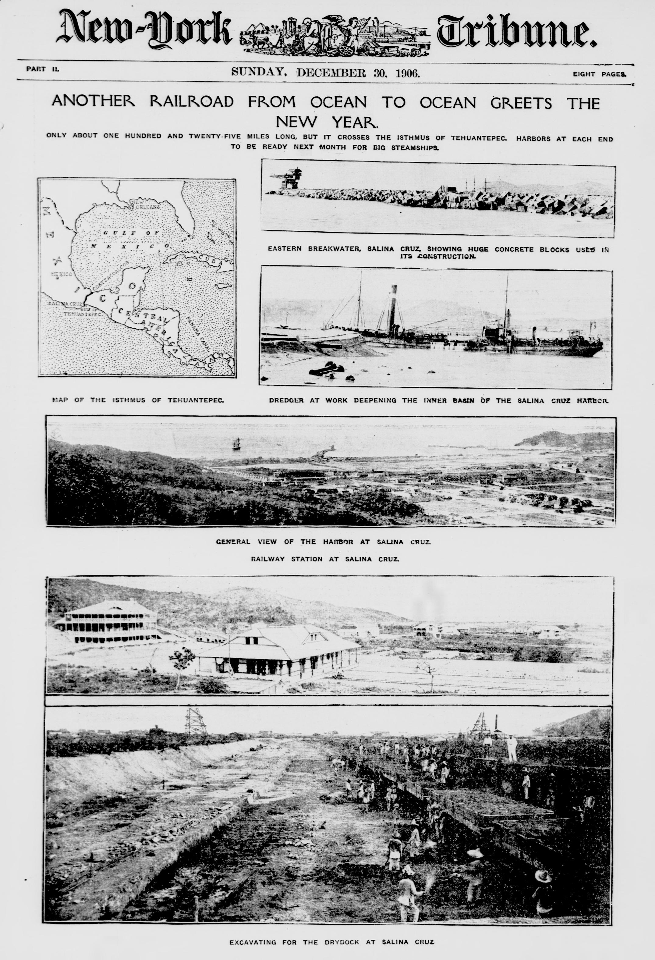 New-York tribune. (New York [N.Y.]) 1866-1924 December 30, 1906, Image 15 Notes: Cover, illustrated supplement. Format: Newspaper page, from microfilm Rights Info: No known restrictions on reproduction. Repository: Library of Congress, Serial and Government Publications Division, Washington, D.C. 20540 USA. Part Of: Chronicling America (Library of Congress) (DLC) - Persistent URL: More information about the Chronicling America Web site is available at